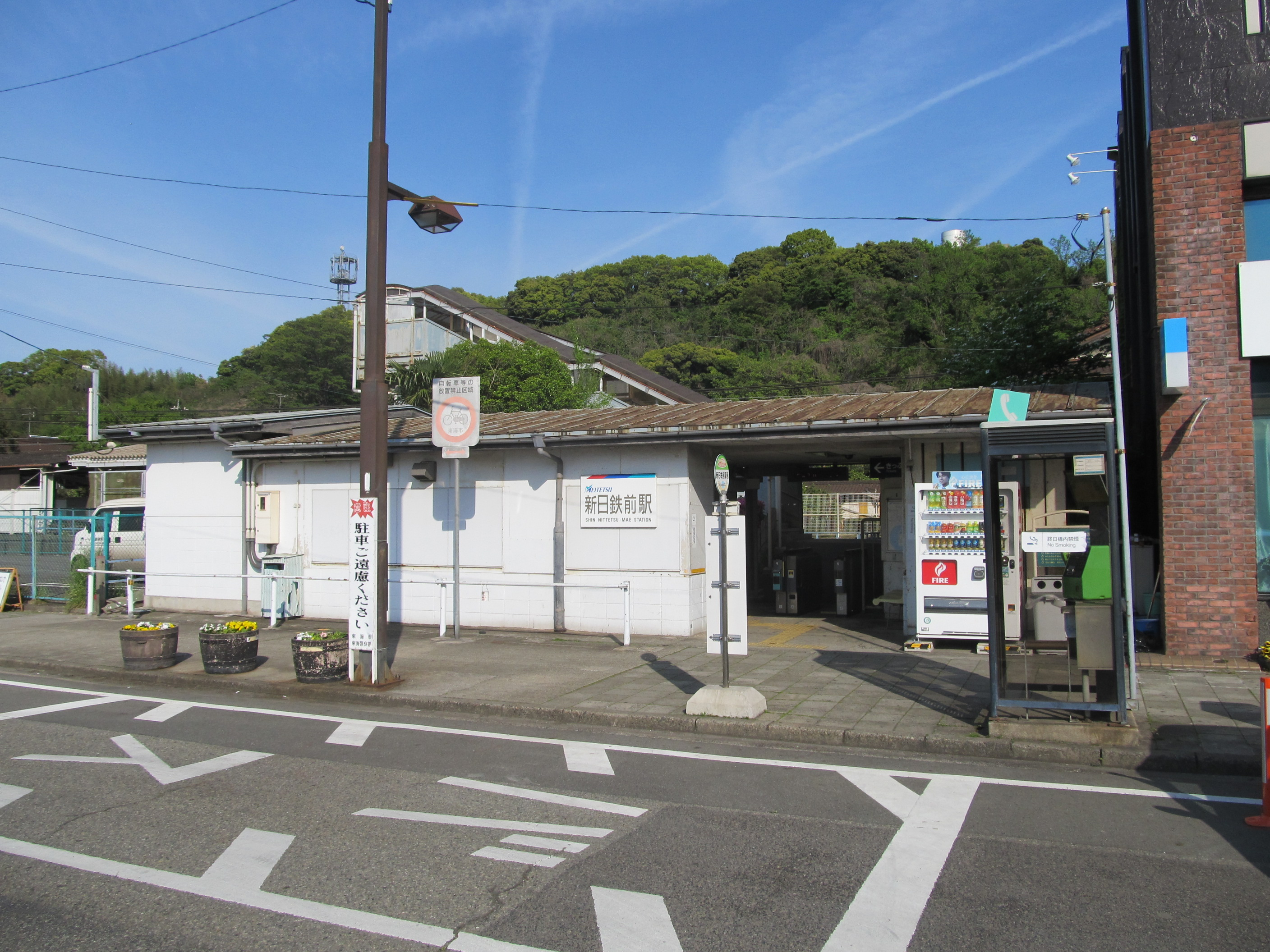 Nagoya Railroad Tokoname Line Shin Nittetsu-mae Station Building